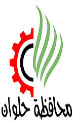 Emblem of the now defunct Helwan Governorate.